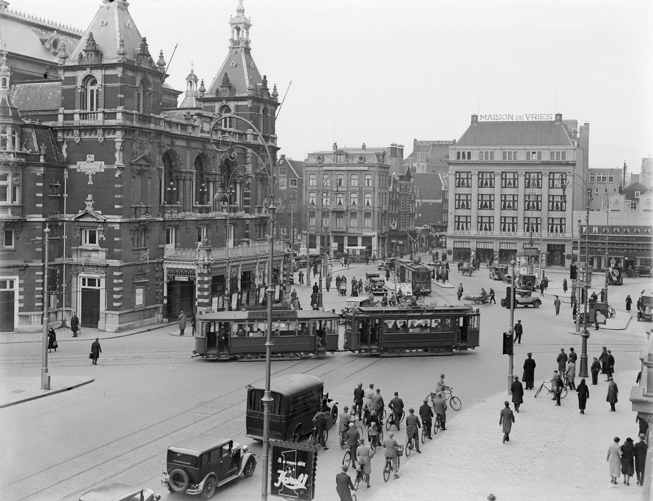 Nationaal Archief Beschrijving: straatbeelden, gebouwen, verkeer, trams, leidseplein, Amsterdam, Noord-Holland Datum: 11 augustus 1934 Bestanddeelnummer: 252-0977 Vervaardiger: Poll, Willem van de URL: Voor meer informatie over het Nationaal Archief: Voor meer foto's uit deze en andere collecties, bezoek onze Beeldbank: U kunt ons helpen onze kennis van de fotocollecties te verrijken door tags en commentaren toe te voegen. Herkent u mensen of locaties of heeft u een bijzonder verhaal te vertellen bij één van de foto’s, laat dan een reactie achter (als u ingelogd bent bij Flickr) of stuur een mailtje naar: !